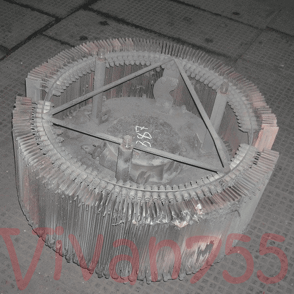 Accelerator (stratup resistor) of czech tram Tatra T3SU